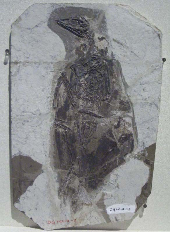 Confuchisornis sanctus fossil displayed in Hong Kong Science Museum